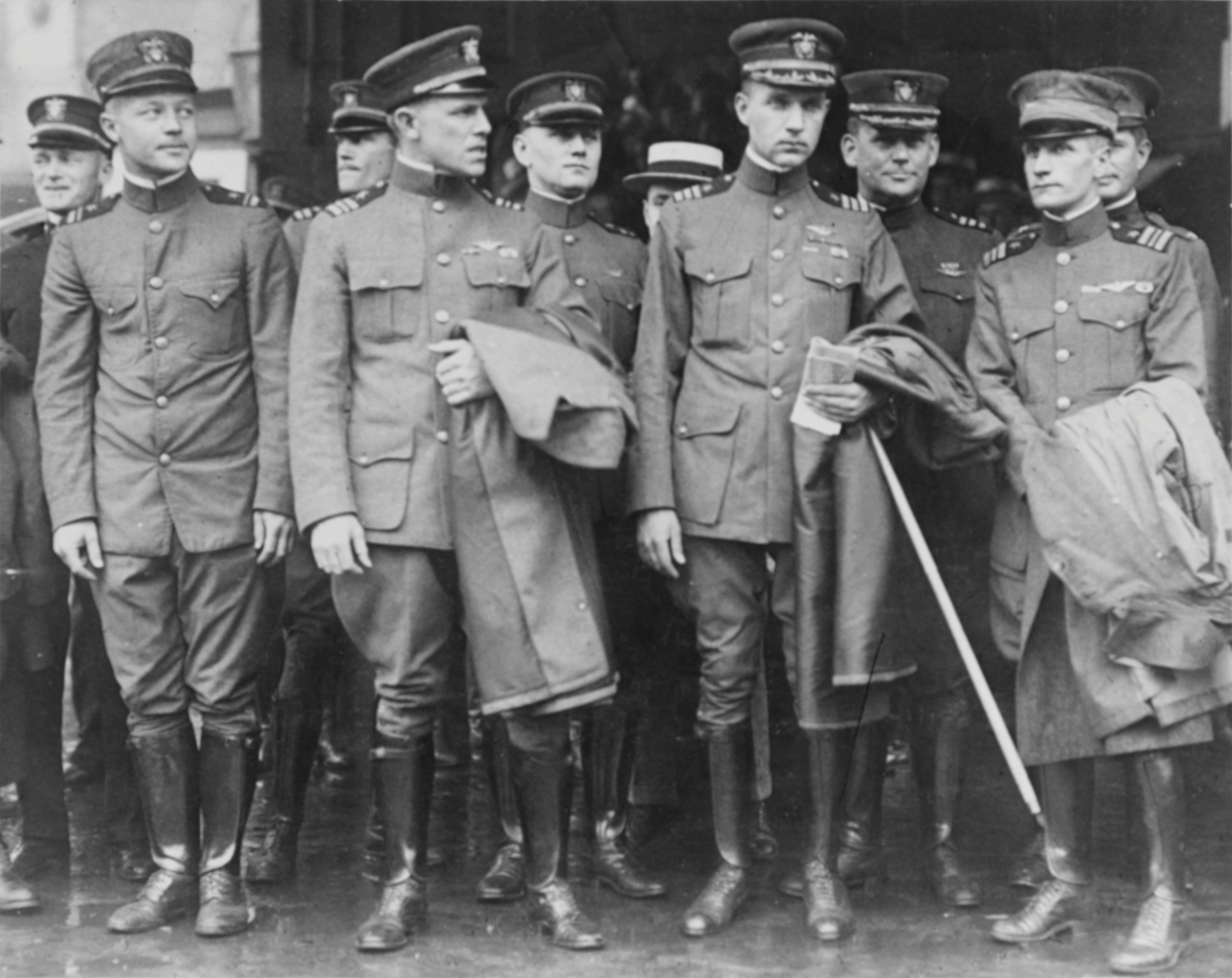 Lieutenant Junior Grade Harry Sadenwater Louis T. Barin, Lieutenant Commander Patrick N.L. Bellinger, Commander John Towers, and Lieutenant Commander A.C. Read. Officers of the Transatlantic flight of the NC aircraft, just after they disembarked at Hoboken, New Jersey, 28 June 1919.